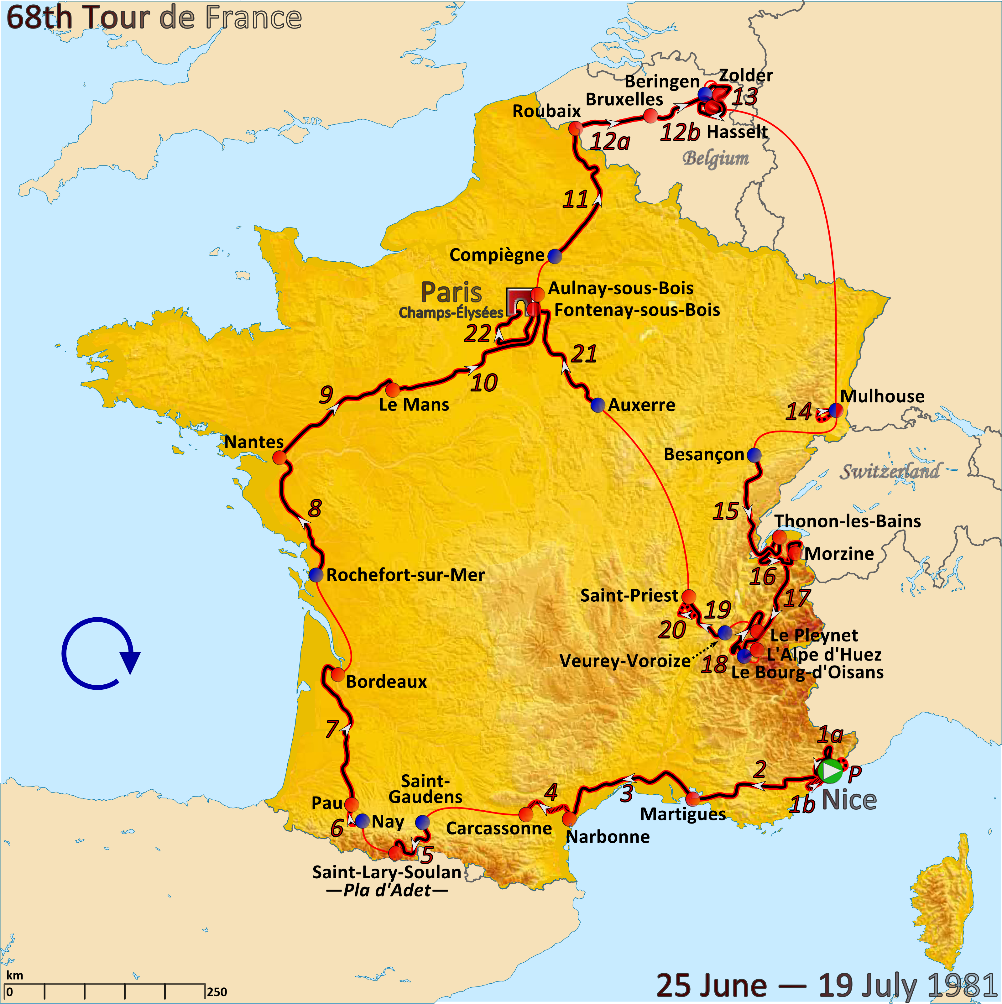 Map of the 1983 Tour de France created in Inkscape using accurate stage maps from touratlas.nl.